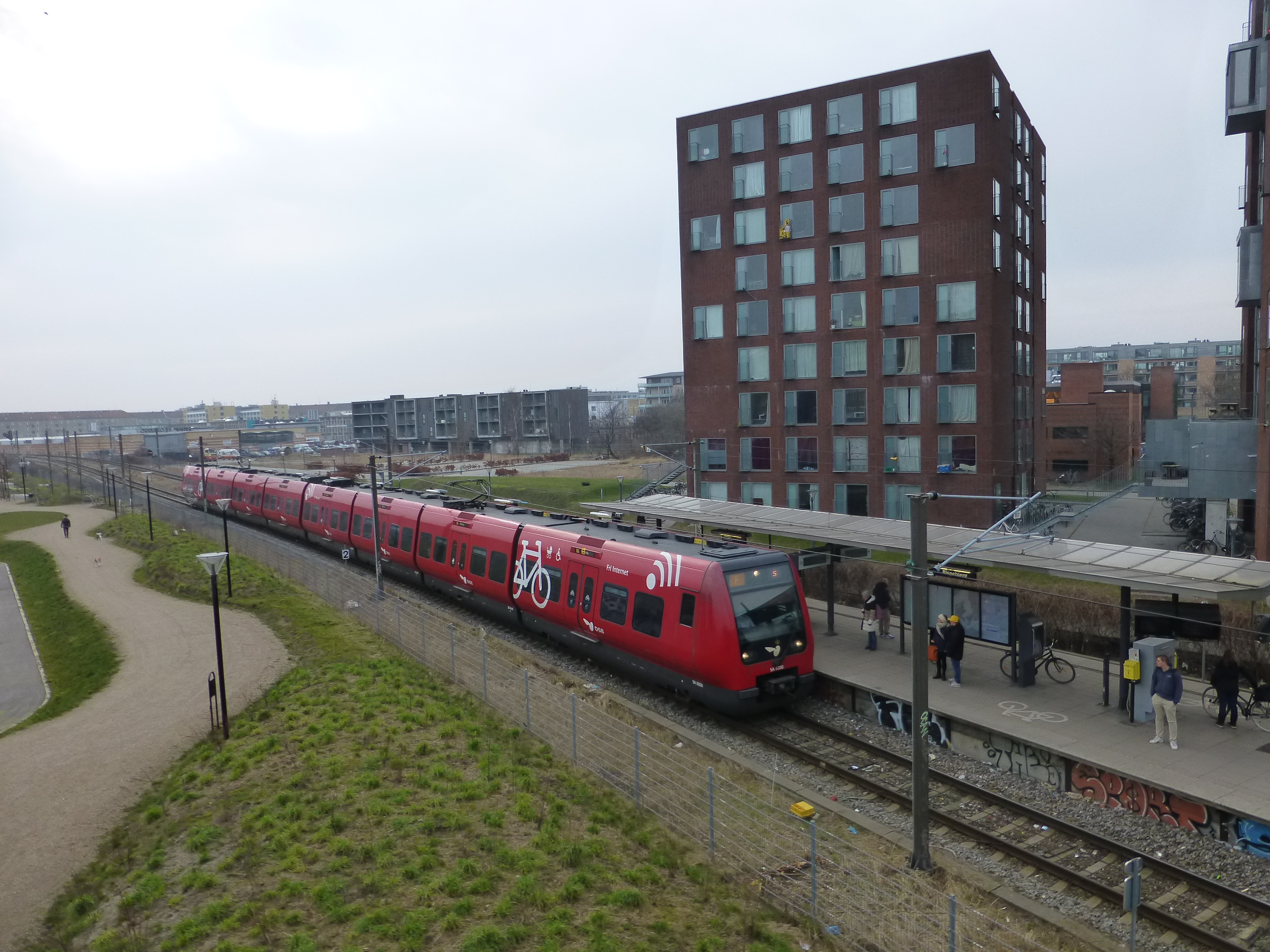 Bispebjerg Station is a S-train station on Ringbanen in Copenhagen.